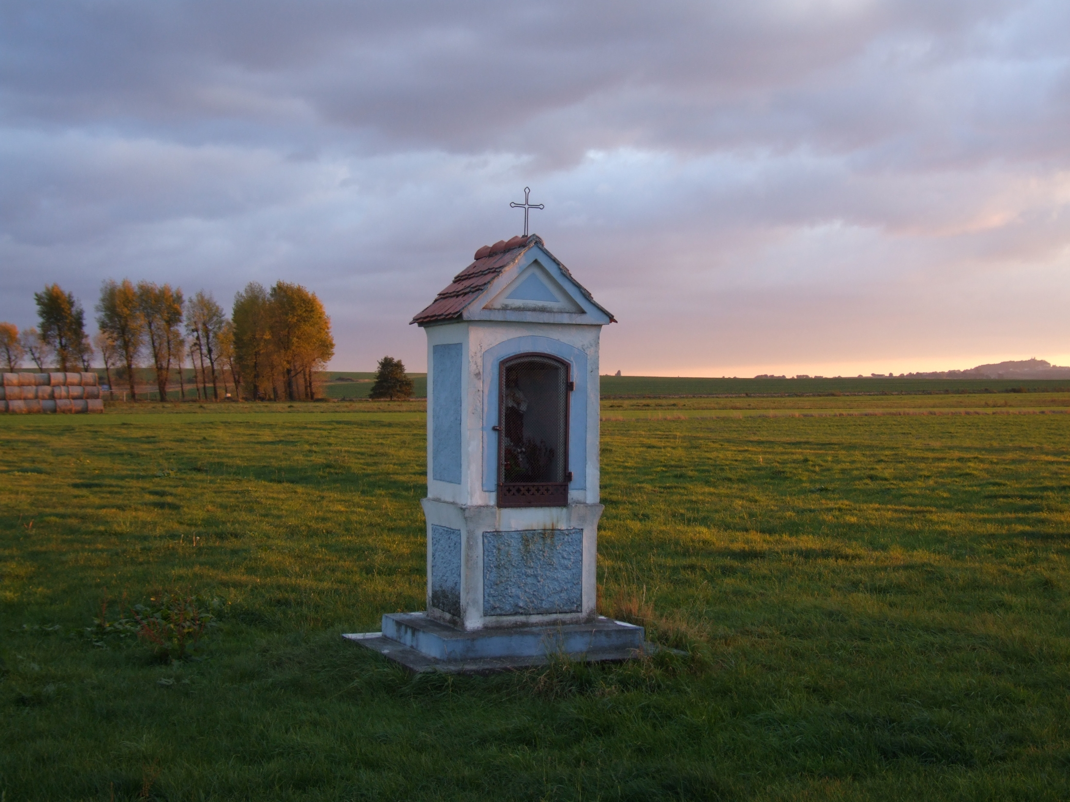 Old silesian chapel - Kalinów (Kalinow, 1936-45 Blütenau)